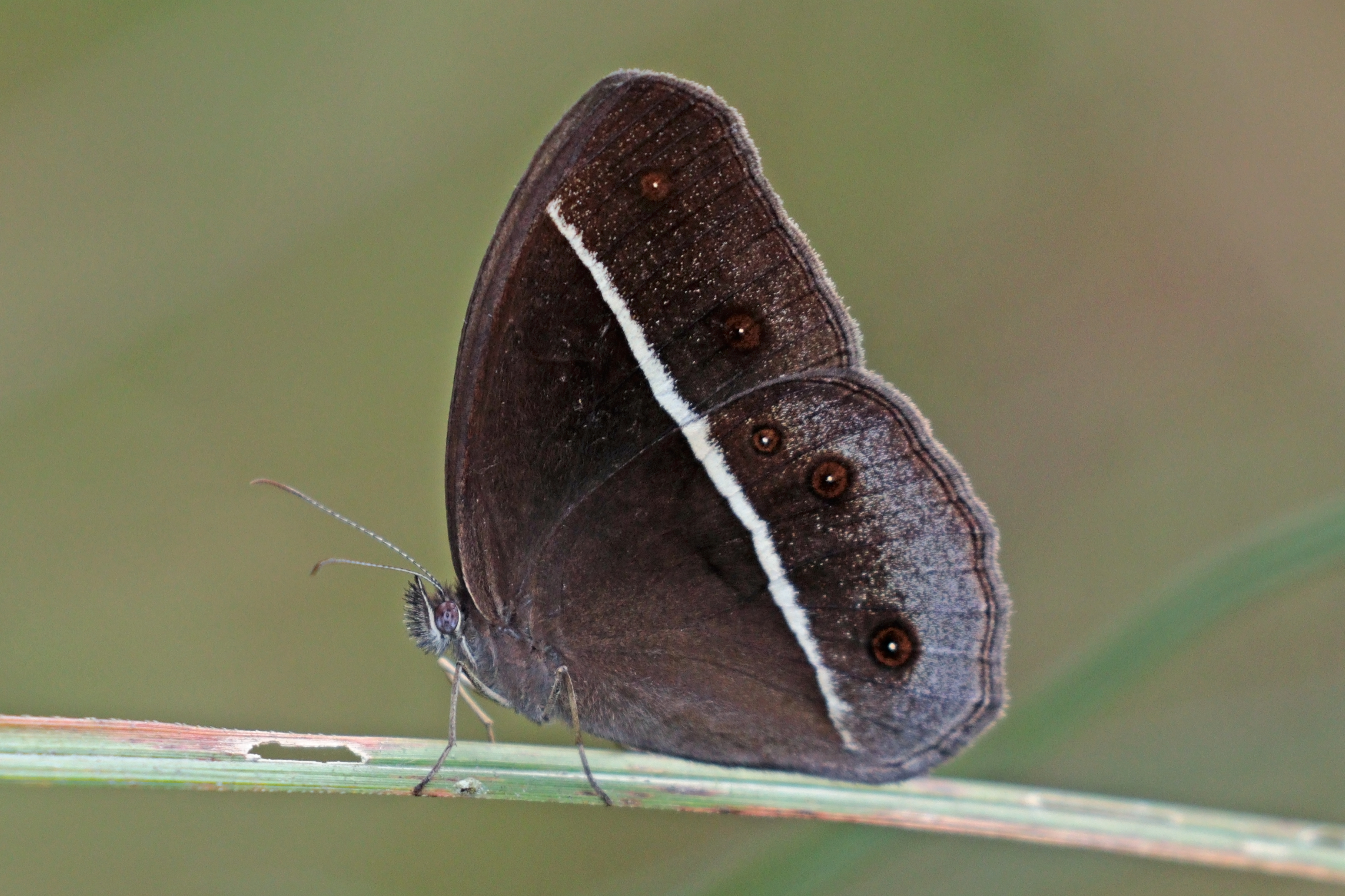 Jungle brown (Orsotriaena medus medus), Chitwan, Nepal